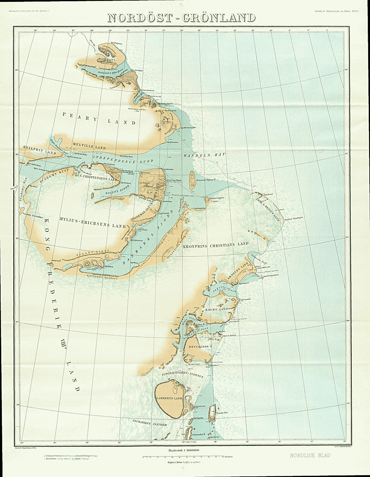 Map of North East Greenland by Johan Peter Koch as surveyed during the Danmark Expedition 1906-1908